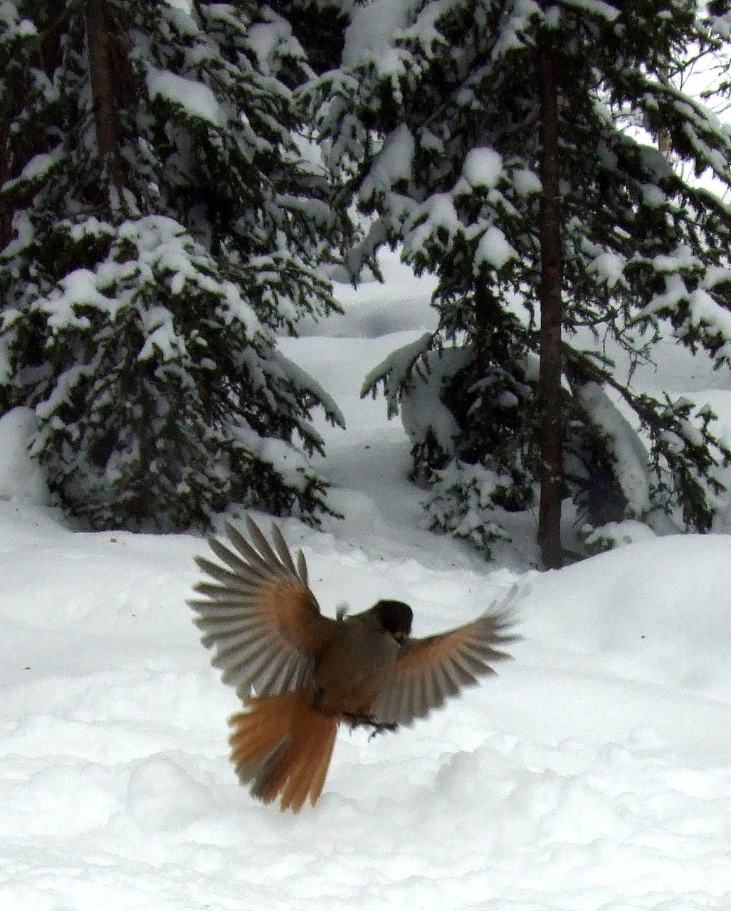 A Siberian Jay (Perisoreus infaustus) in Kittilä, Finland